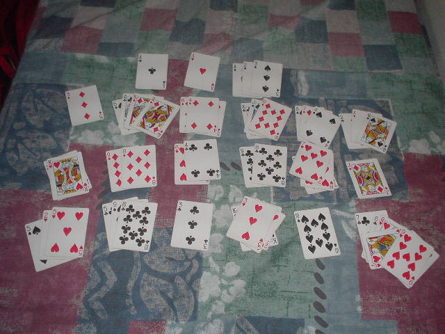 A game of "Three Shuffles and a Draw" in progress. It was also taken just now using my digital camera. Captioned As { }